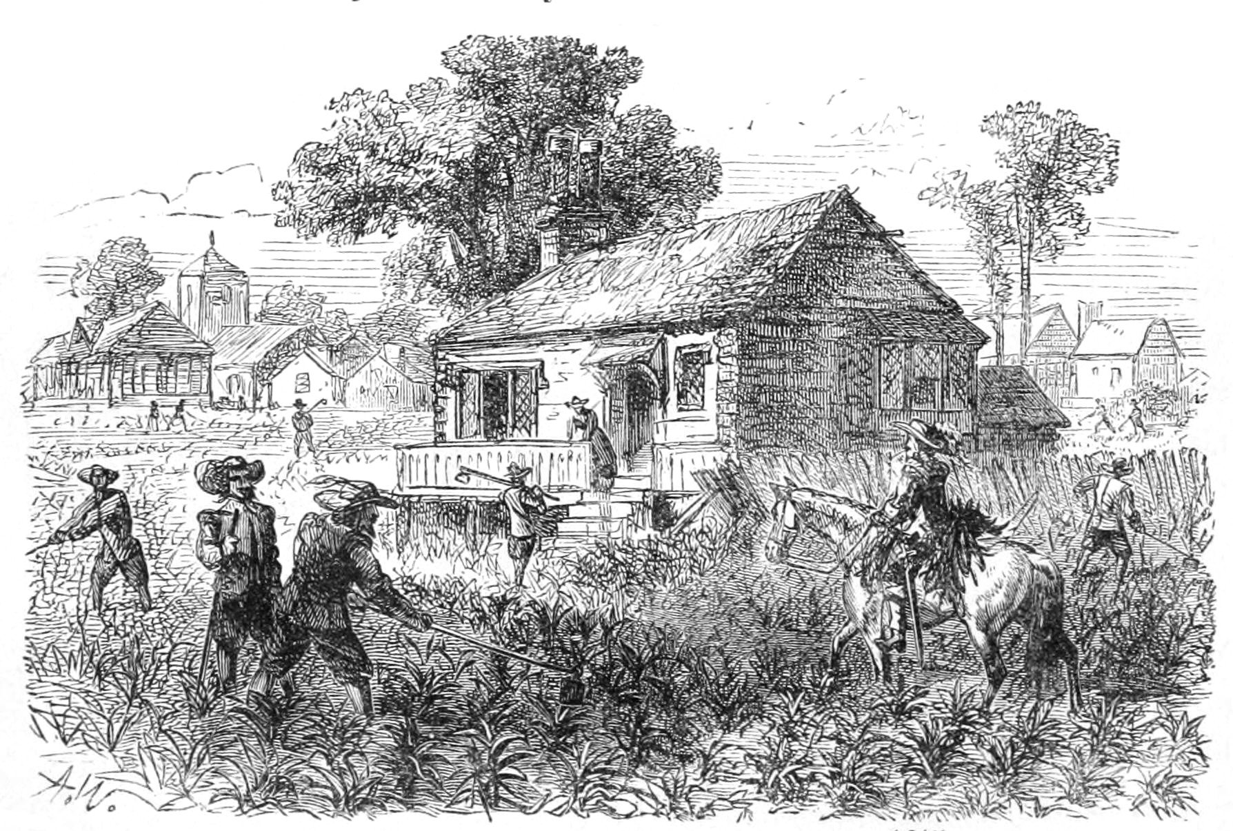 An 1878 depiction of tobacco cultivation at Jamestown, ca. 1615. From A School History of the United States, from the Discovery of America to the Year 1878 by David B. Scott (1878); available at the Internet Archive